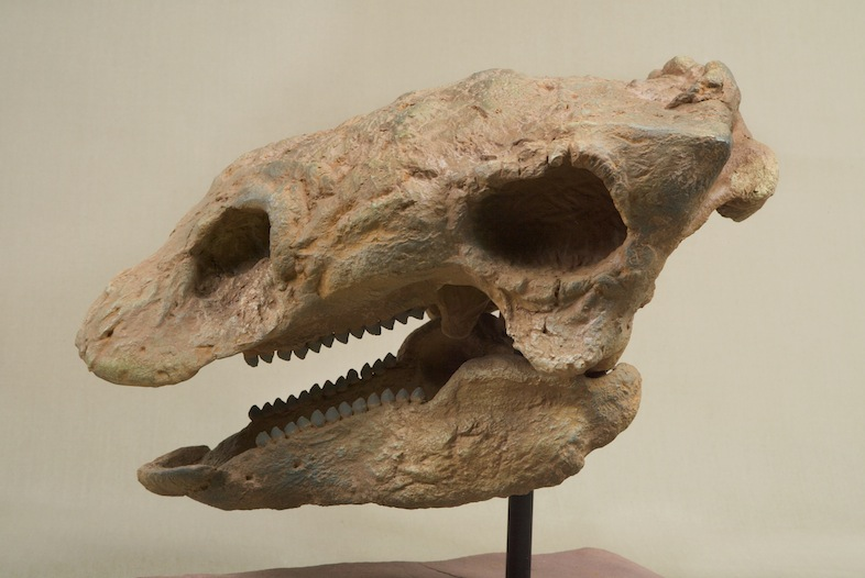 A cast skull of Gastonia (Gastonia burgei) in the permanent collection of The Children’s Museum of Indianapolis